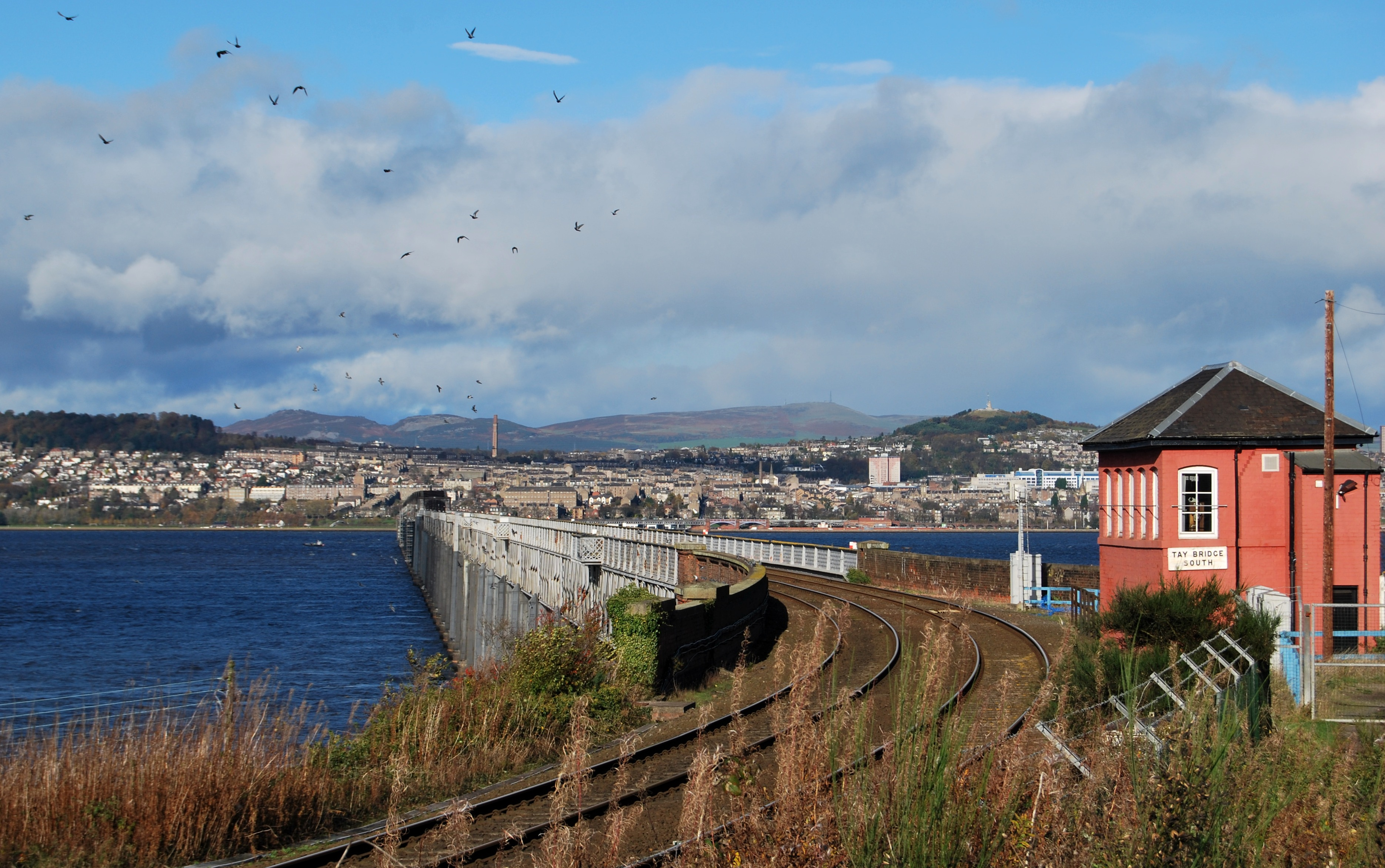 Tay Rail Bridge from south end